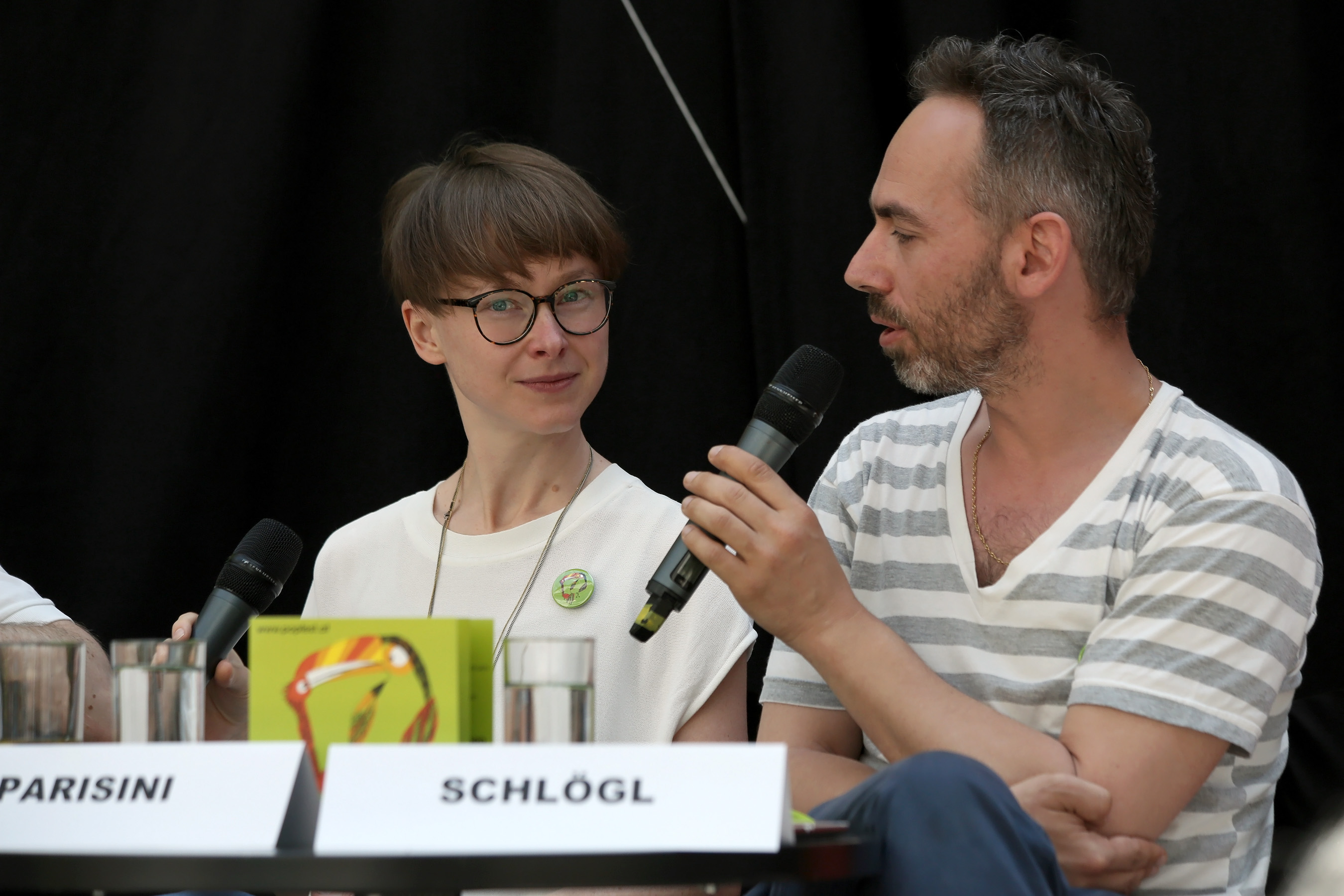 Violetta Parisini and Wolfgang Schlögl at the presentation of the program of Popfest 2014 in (Vienna Museum, Vienna, Austria).